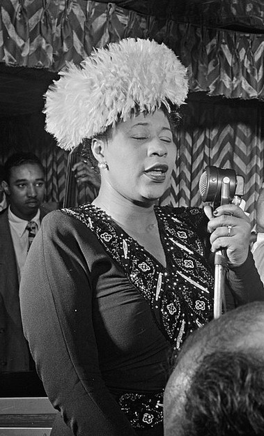 Portrait of Ella Fitzgerald, Dizzy Gillespie, Ray Brown, Milt (Milton) Jackson, and Timme Rosenkrantz, Downbeat, New York, N.Y.